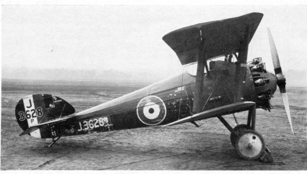 Sopwith Dragon fighter while undergoing testing at McCook Field in the US Aircraft still extant January 1926 Credited as "US Official" on p.149 of Bruce